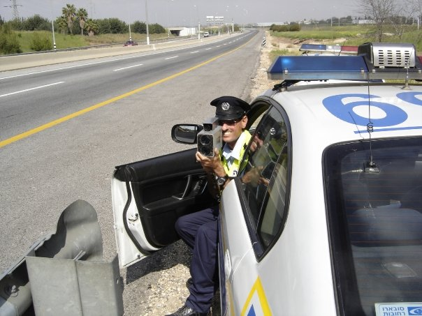 Israeli Traffic policeman uses a laser gun